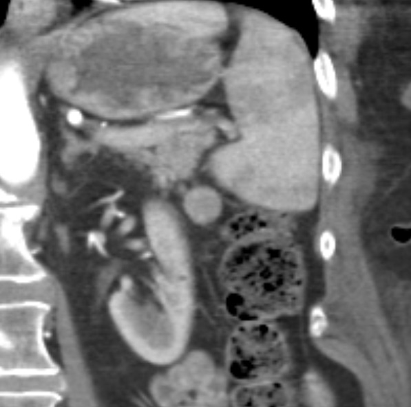 Coronal plane of a CT scan of a 73 year old woman who had the investigation performed due to hematuria. It shows a 1.5 cm accessory spleen in the center of the image, between the spleen (laterally), the tail of the pancreas (superiorly), the left kidney (medially) and the decending colon (inferolaterally).